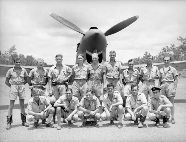 Australia: Northern Territory. Group portrait of pilots of B Flight, No. 77 Squadron RAAF, in front of a Curtiss P-40 Kittyhawk aircraft. Back row, left to right: Sergeant (Sgt) G. B. Rich; Sgt M. Holdsworth; Sgt T. P. Power; Flying Officer (FO) John G. Gorton; Pilot Officer (PO) C. I. Winter-Irving; PO J. A. T. Hodgkinson; Sgt C. Laing; FO G. Gratton. Front row: Sgt P. R. McEwen; FO B. Wilson; FO J. C. Hastwell; Flt Lt George Shave, Flight Commander; Flt Lt R. C. Kimpton.